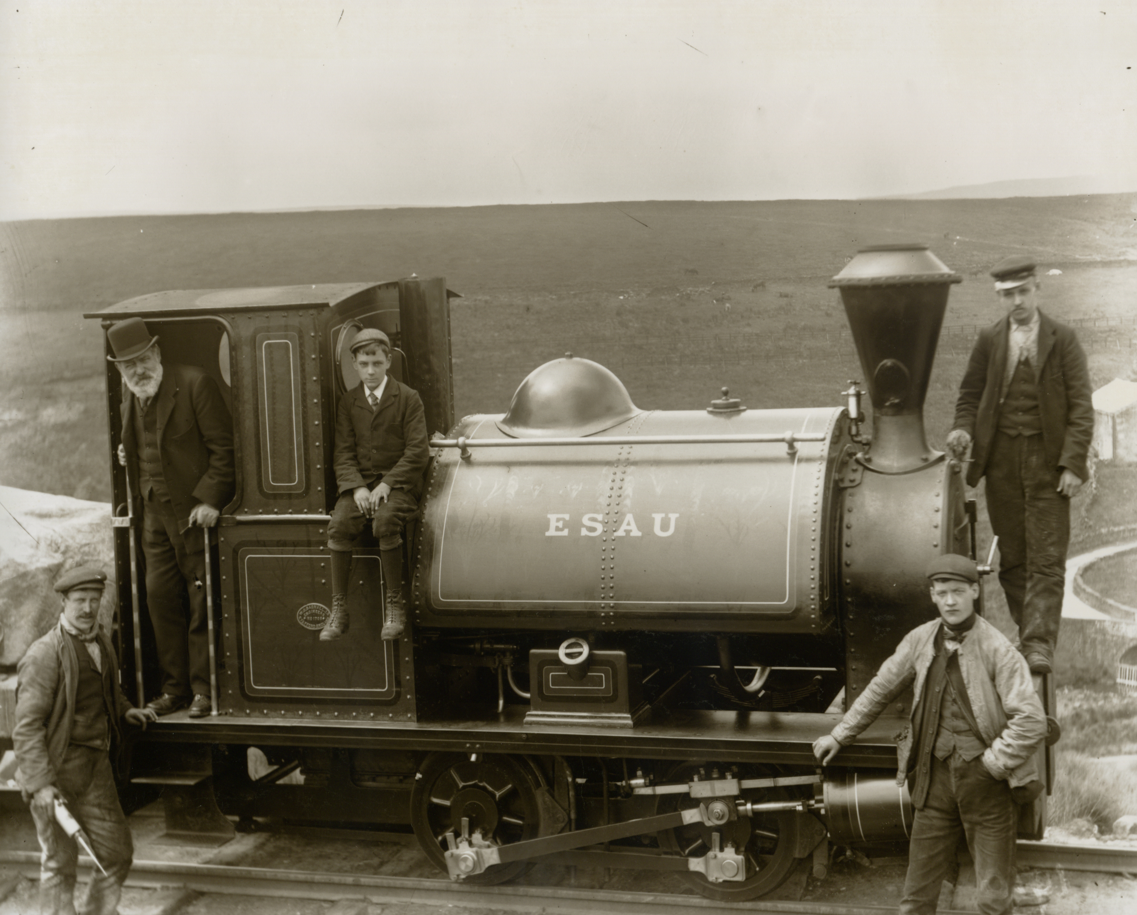 'Esau', the last locomotive to arrive for work on Blake Dean Railway in 1904 and the last to leave. Enoch Tempest is standing in the cab and his son, George, perches on the coal